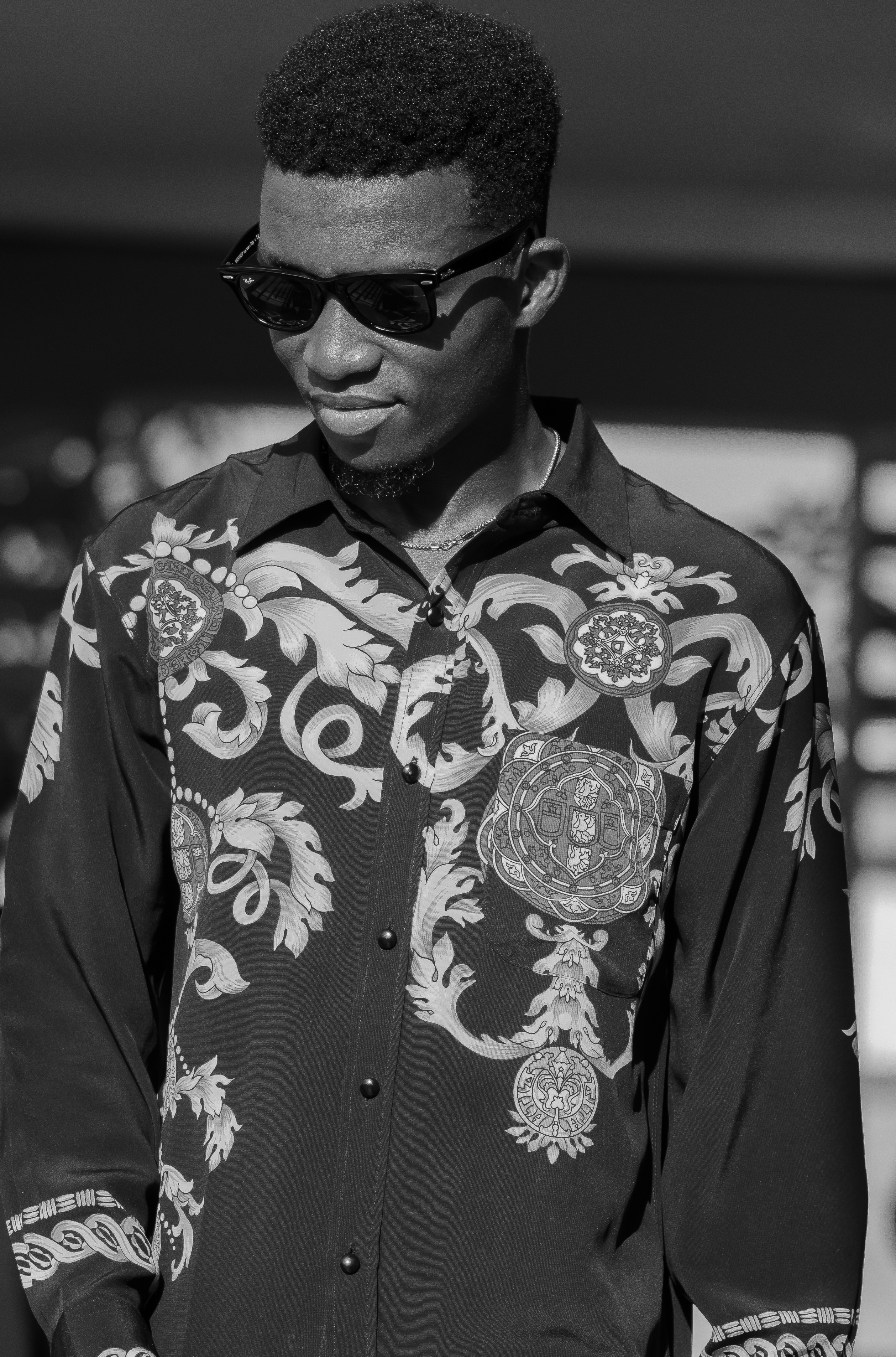 Portrait of Kofi Kinaata